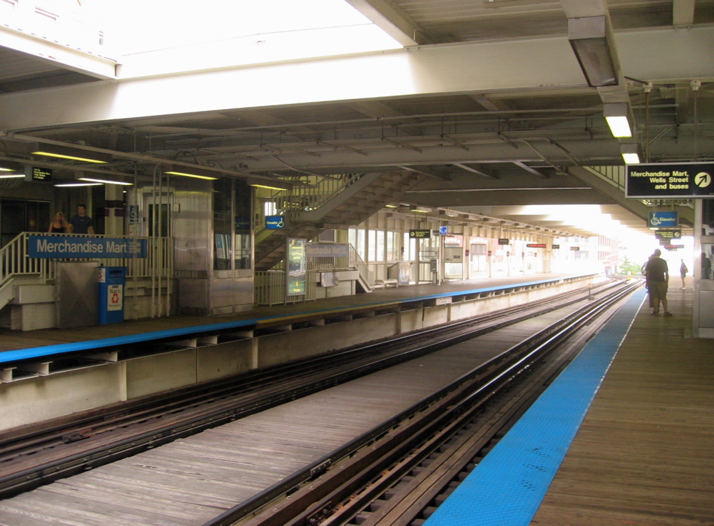 Merchandise Mart station on the CTA brown and purple lines.Photographed from 41°53.32767943511996′N 87°38.03442337524018′W / 41.888794657°N 87.633907056°W looking north.